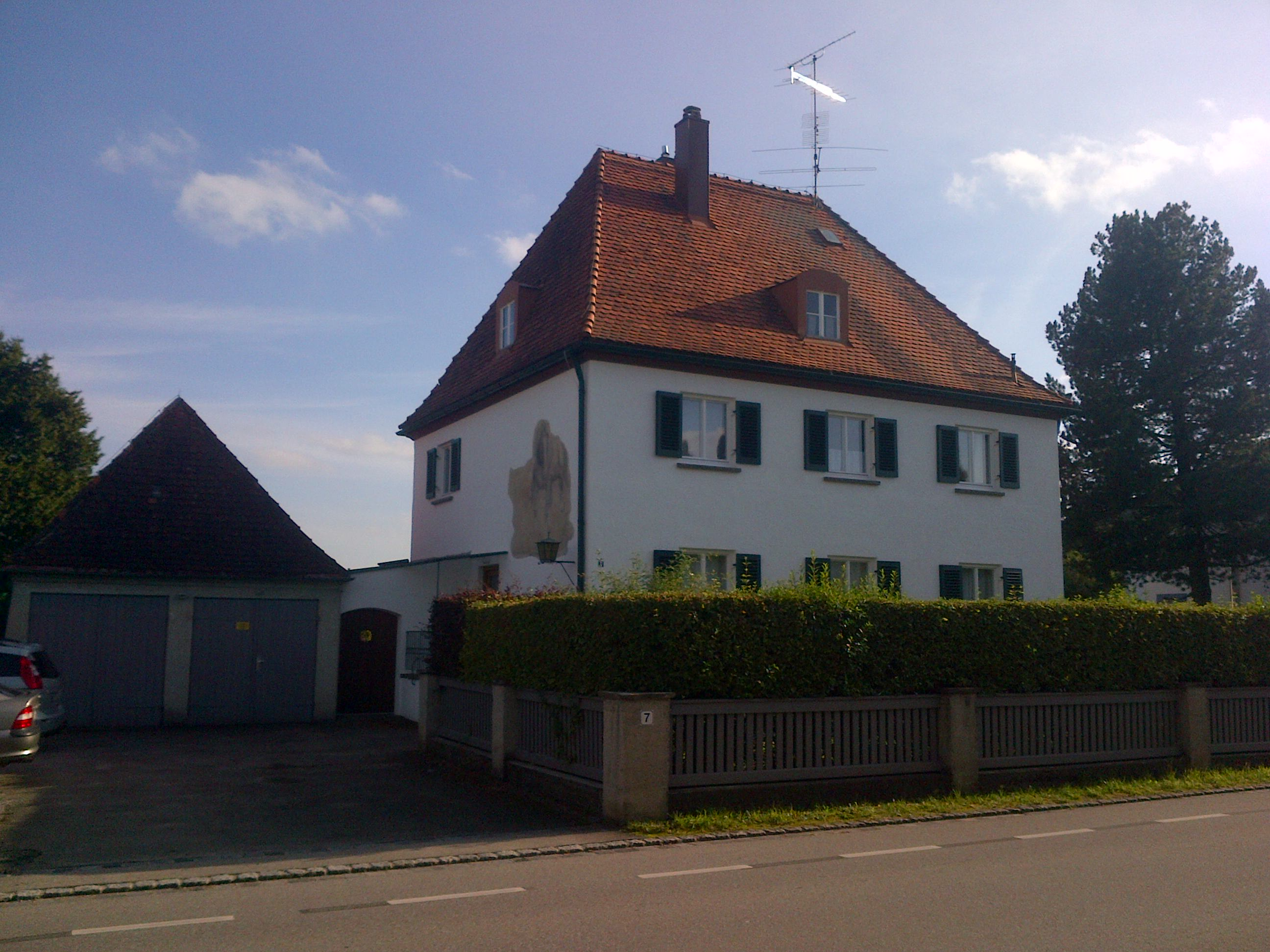 erkheim